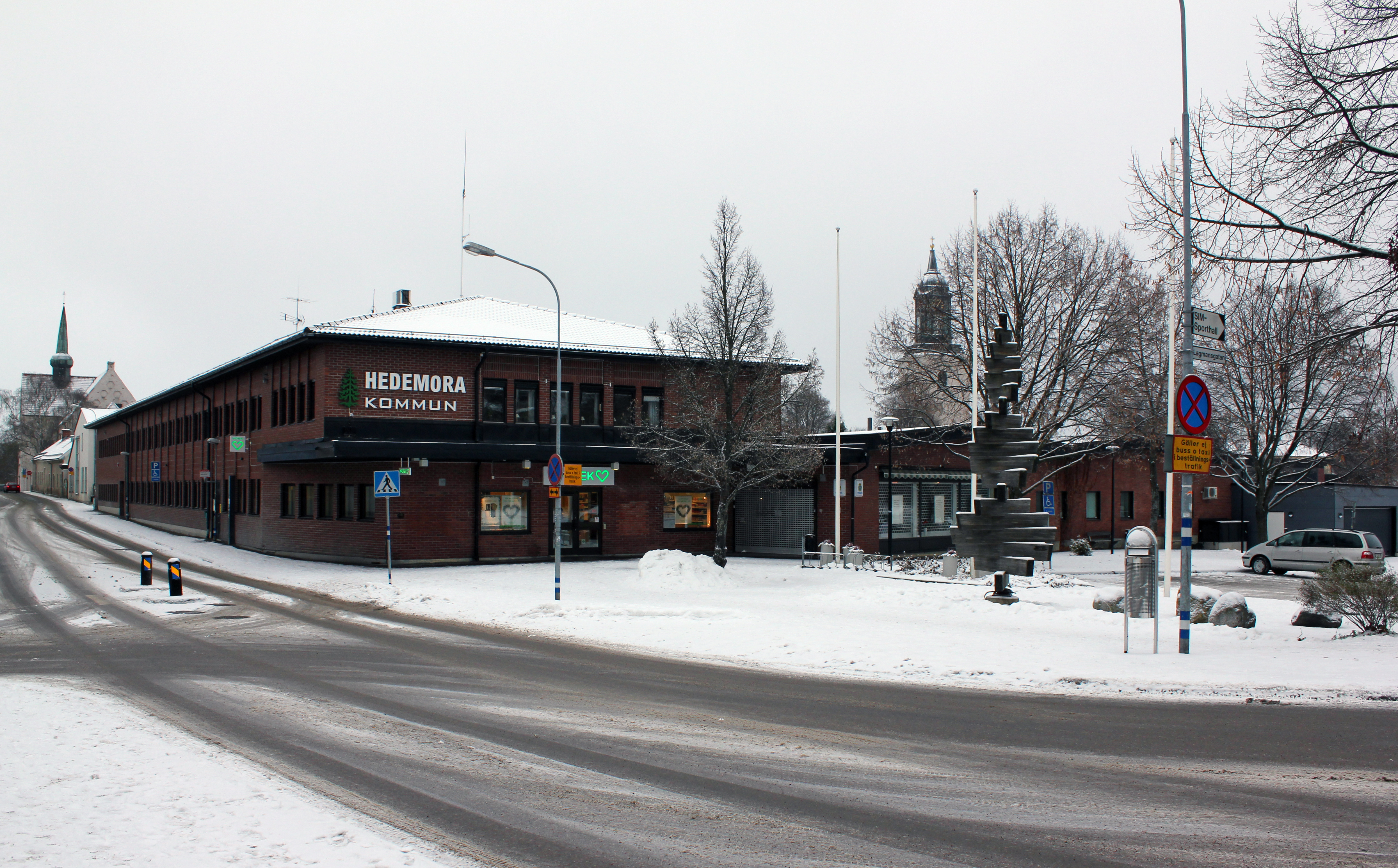 Oxtorget ("Ox square"), Hedemora, Sweden. Brick buildning is called Tjädernhuset with Municipality office, pharmacy and police station.